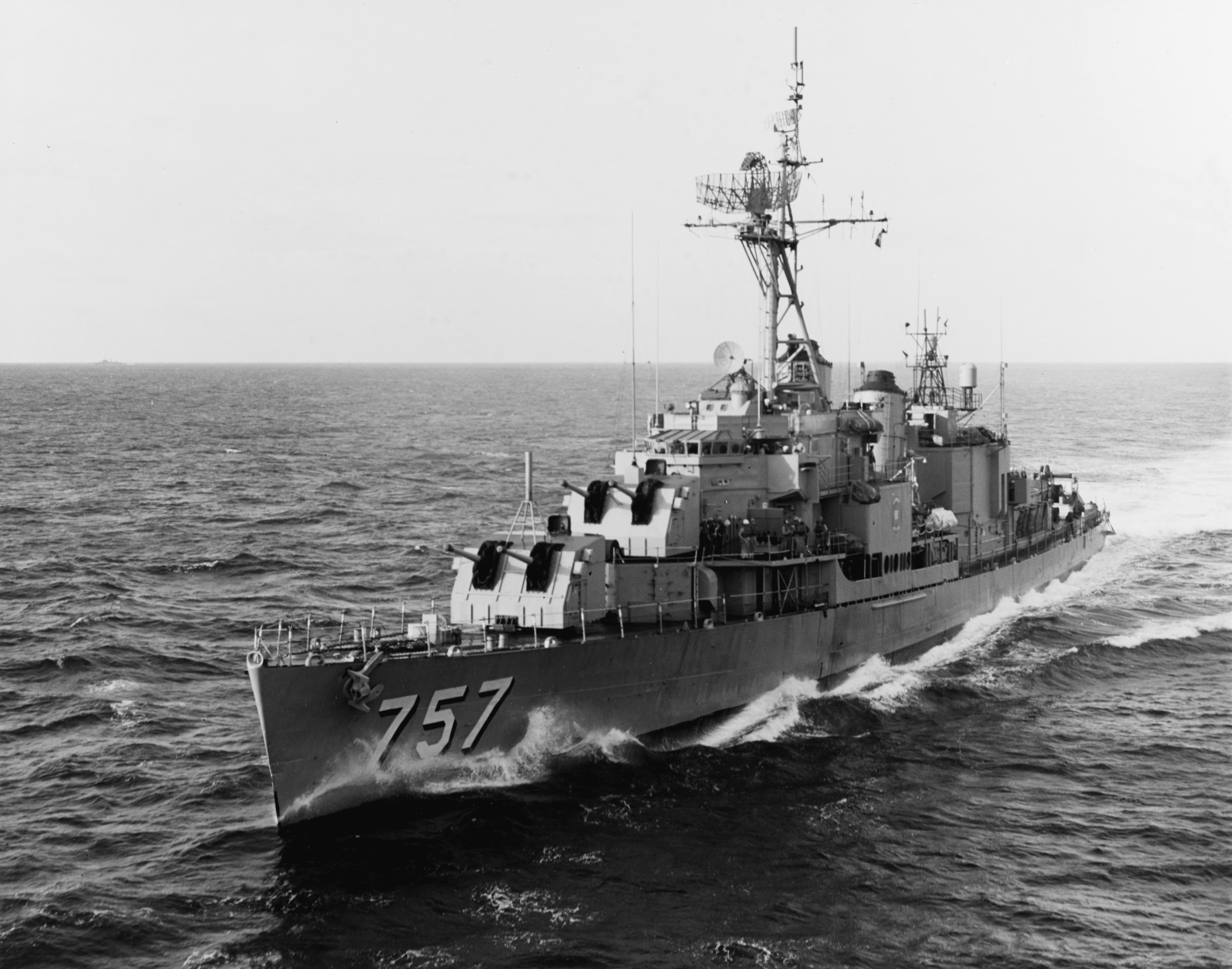 The U.S. Navy destroyer USS Putnam (DD-757) coming alongside the aircraft carrier USS Lake Champlain (CVS-39), not visible, for refueling at sea on 12 October 1964. Lake Champlain, with assigned Carrier Anti-Submarine Air Group 54 (CVSG-54), was deployed to the Mediterranean Sea from 8 October to 25 November 1964.